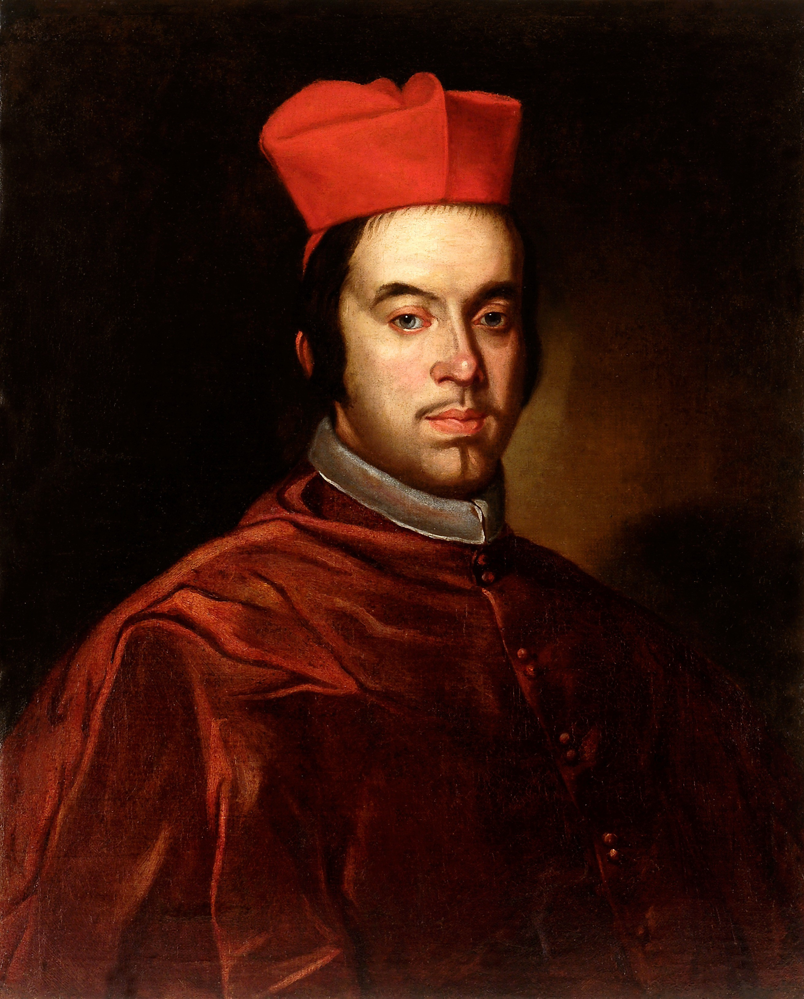 Portrait of Luis Manuel Fernández de Portocarrero (1635-1709)